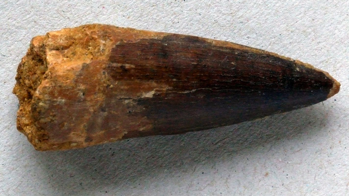 Tooth